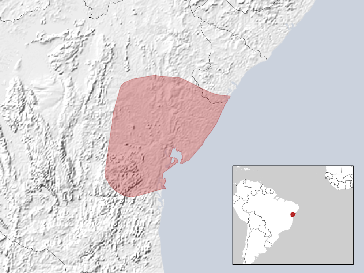 geographic distribution of Trinomys albispinus